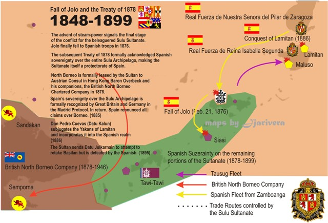 1848-1899 map of Sulu Archipelago, Philippines